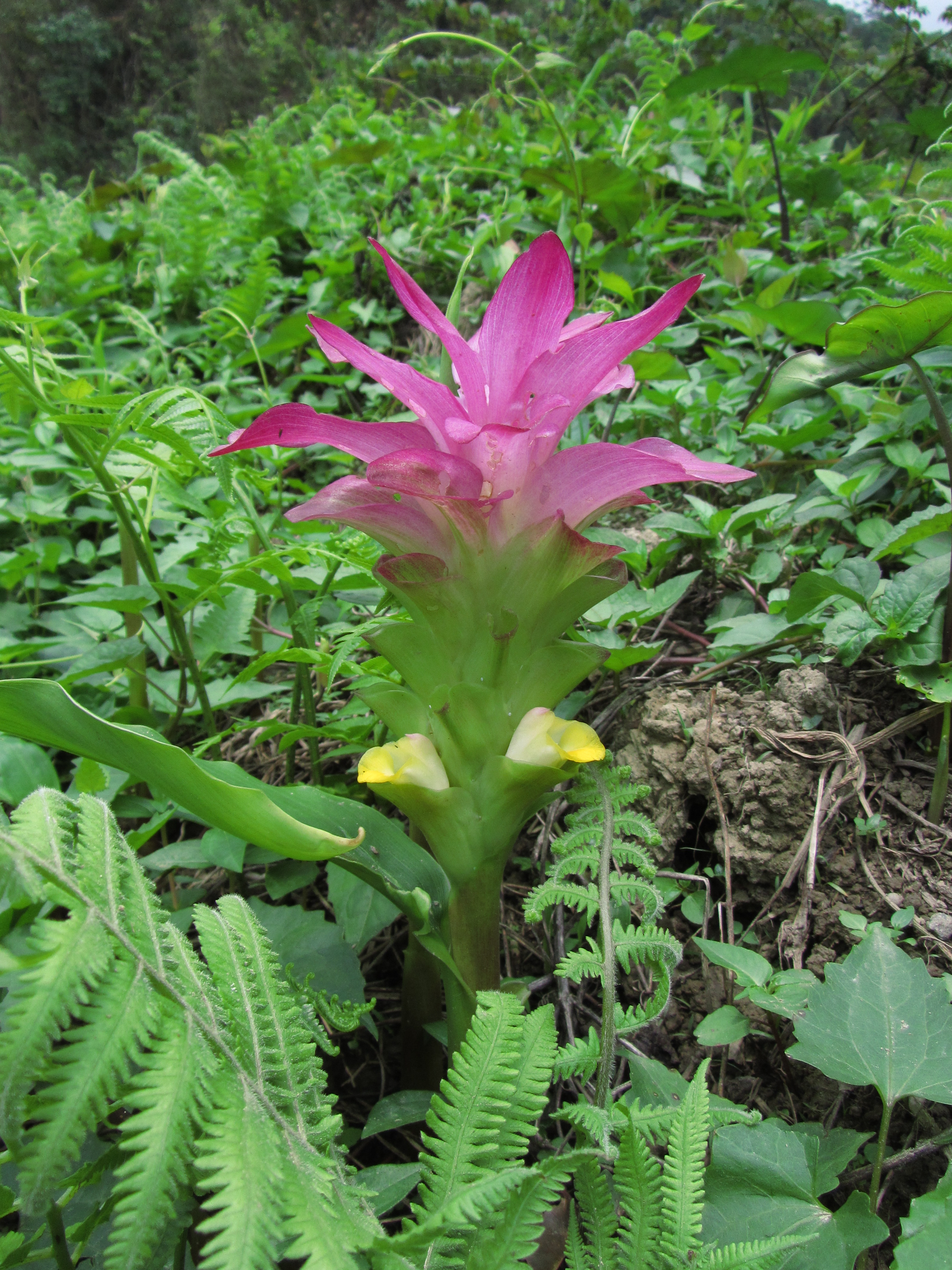 Curcuma aromatica (Zingiberaceae) . If this is another species please correct me as tehre seems to be several similiar species. Khellong to Doimara, West Kameng,Arunachal Pradesh, 26 April 2012